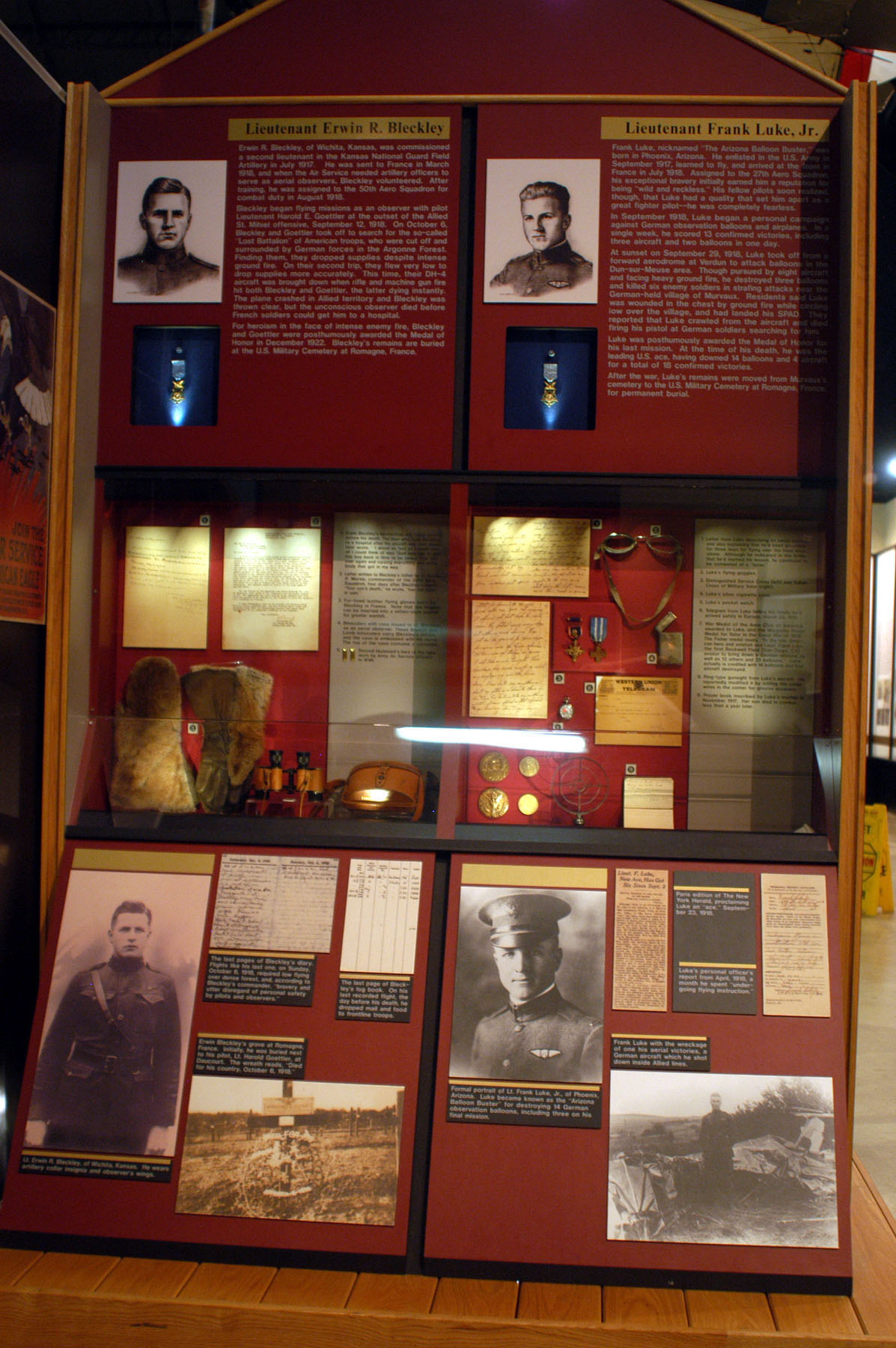 Lt. Erwin Bleckley and Lt. Frank Luke exhibits at the National Museum of the United States Air Force (U.S. Air Force photo).